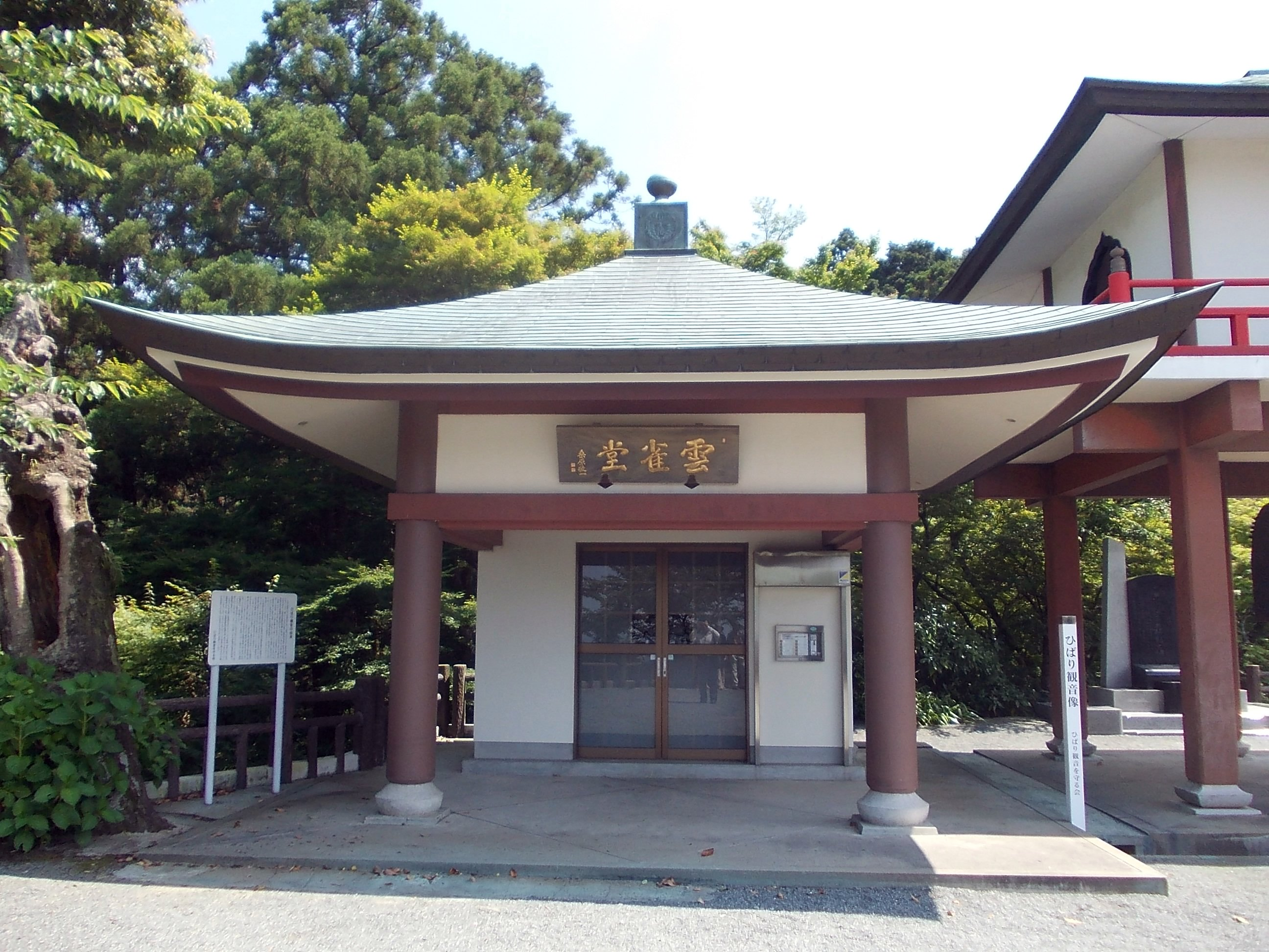 The Hibari Kannon-do Hall in Shokaku-ji/Aburayama-kannon was built in 1994 which the hall was dedicated to Hibari Misora, a Japanese female ballad singer who died in June 1989.